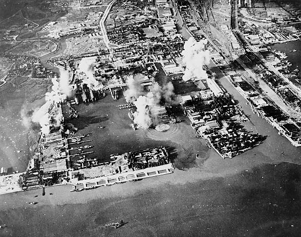 View of the attack on Surabaya, Netherlands East Indies, on 17 May 1944 by aircraft from the aircraft carriers USS Saratoga (CV-3) and HMS Illustrious (87) during "Operation Transom".